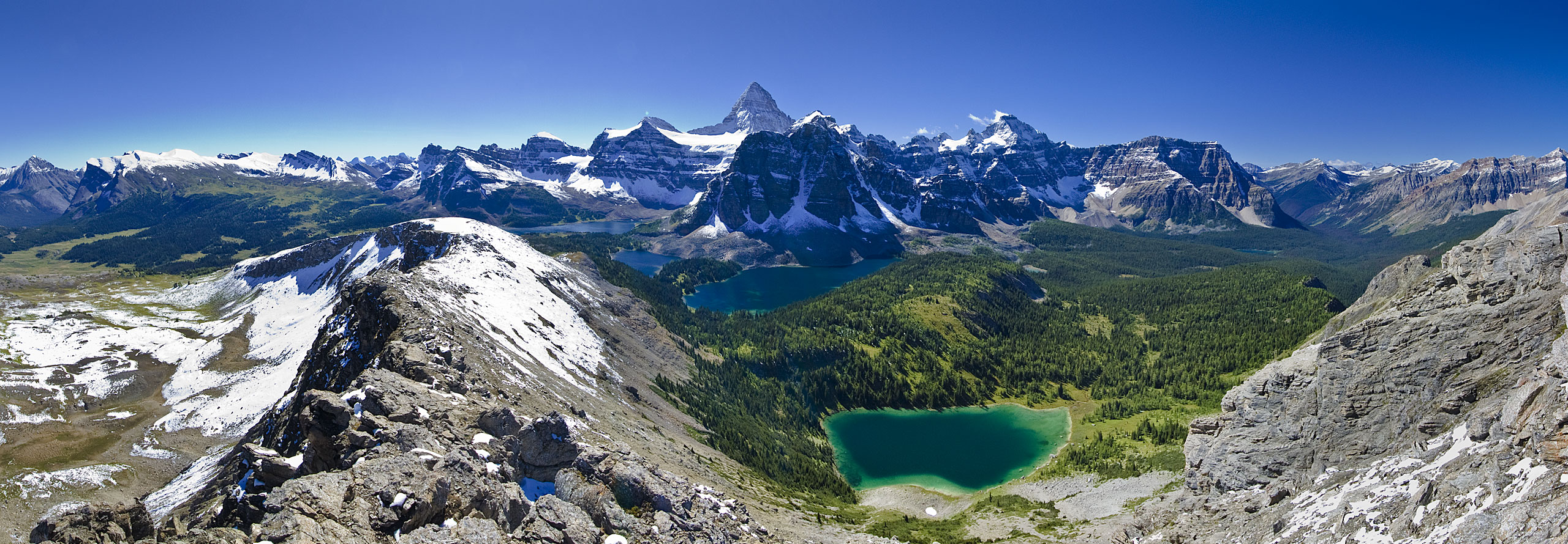 The Assiniboine range of mountains from Nub Peak. Mount Assiniboine Provincial Park, B.C., Canada.